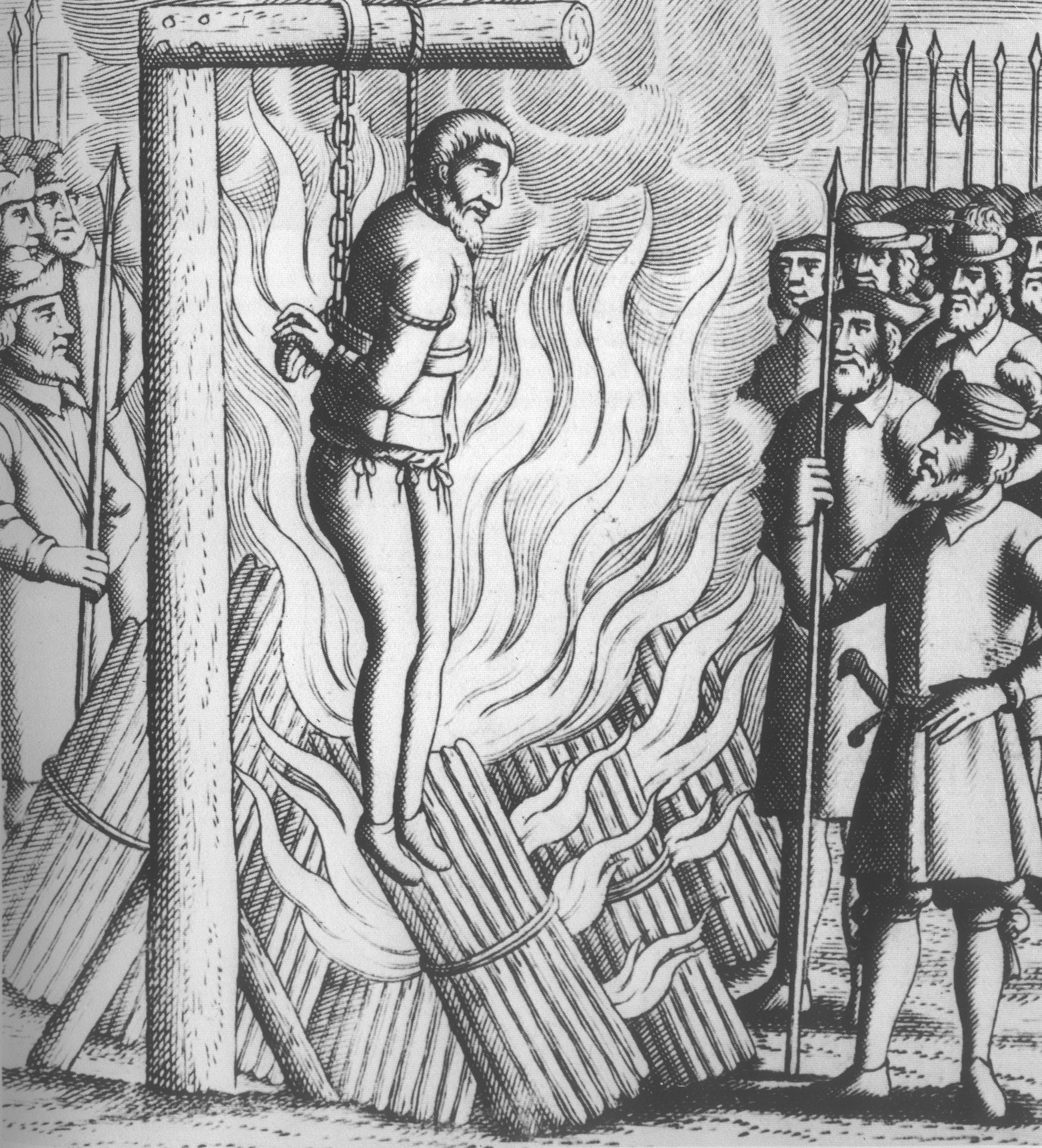 "After the death of this blissed martyre of God, begane the people, in plaine speaking, to dampne and detest the crueltie that was used. Yea, men of great byrth, estimatioun, and honour, at open tables [Communion] avowed, That the blood of the said Maister George should be revenged, or ellis thei should cost lyef for lyef." (John Knox, Historie of the Reformatioun of Scotland)